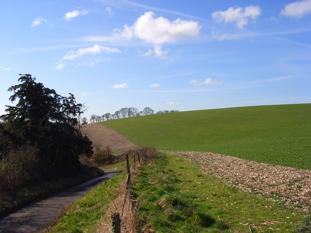 Farmland, Fawley A cereal crop above Fawley Bottom. To the left is the lane rounding a corner of Hanging Wood.